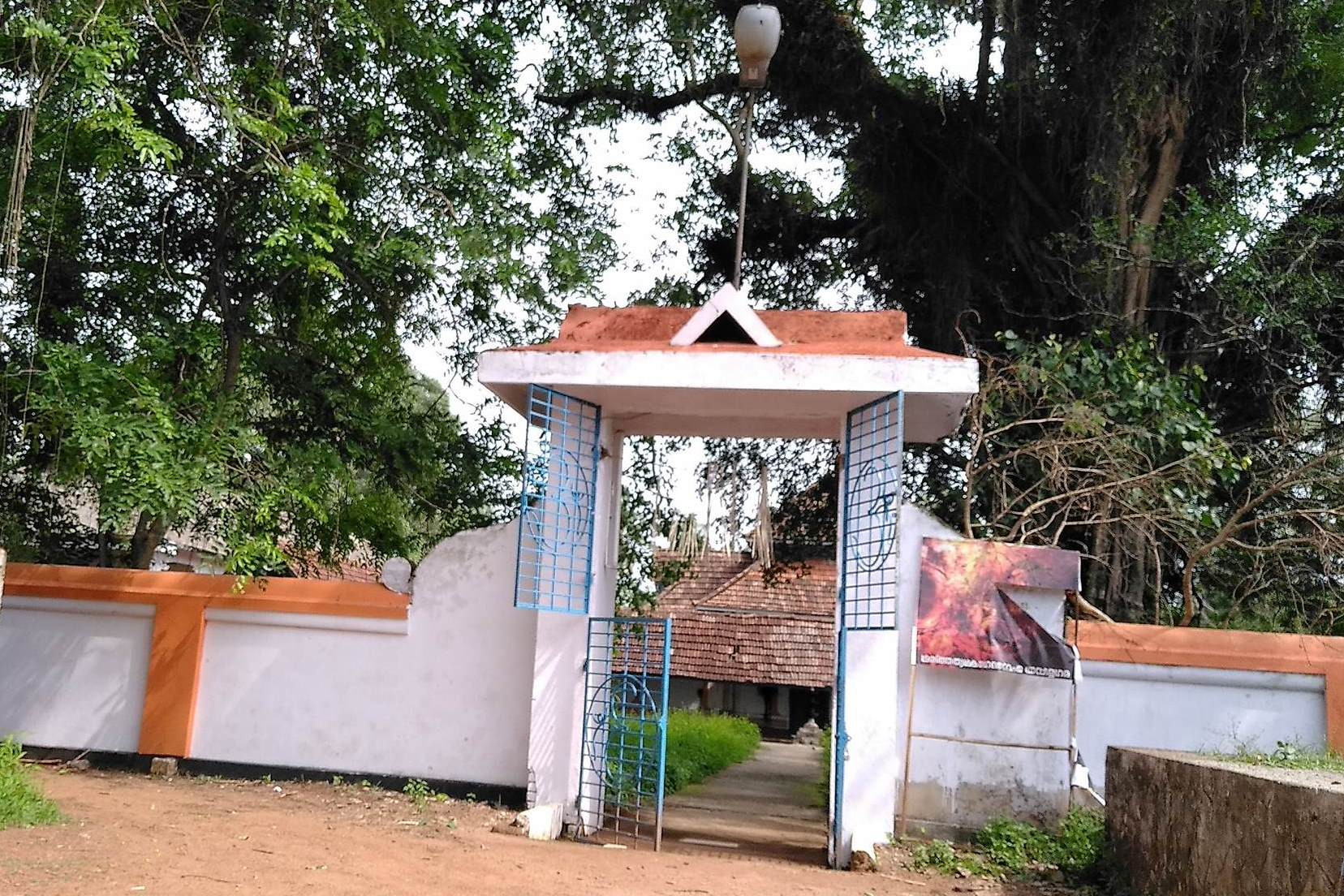 Velappaya Temple